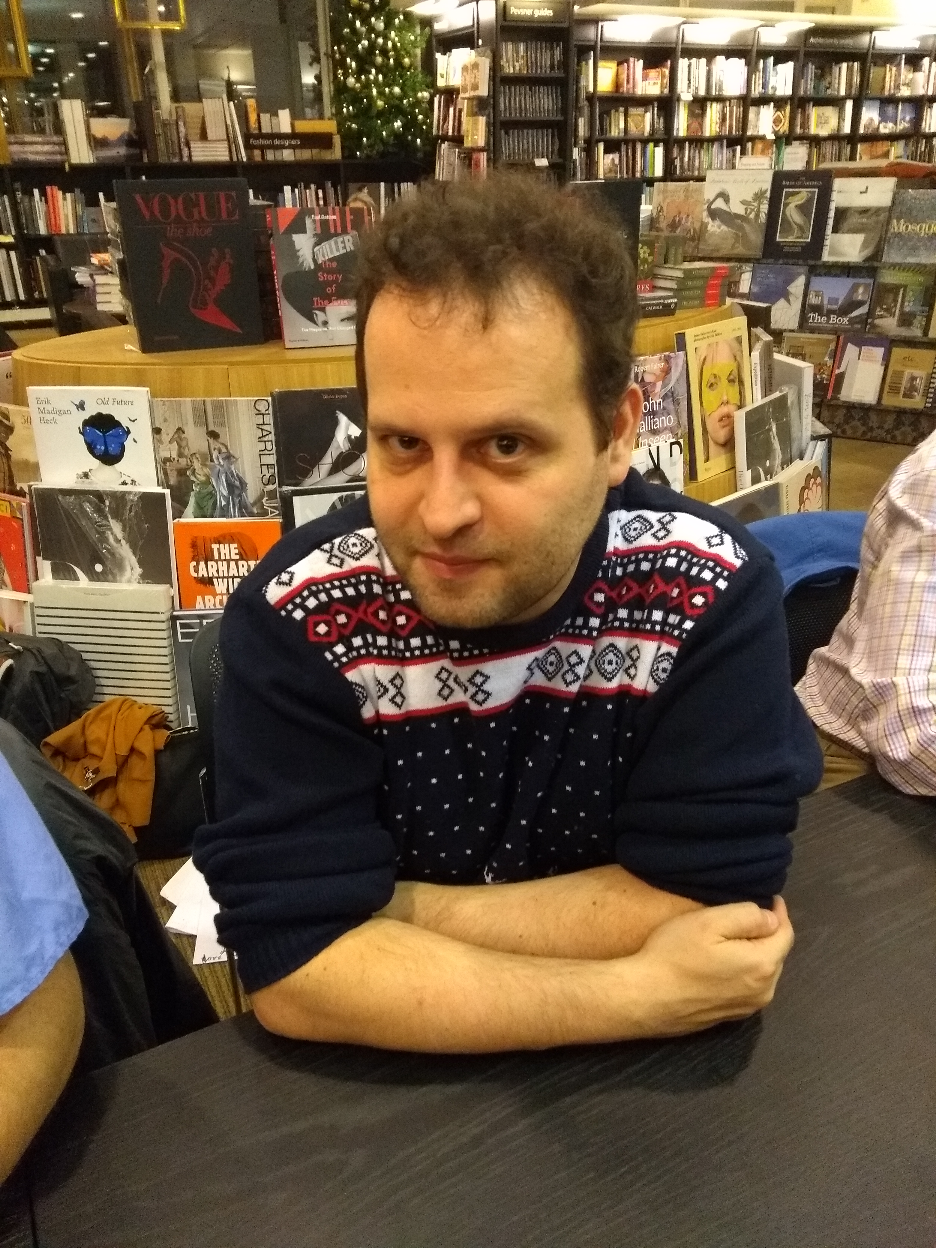 Adam Kay, 20171207